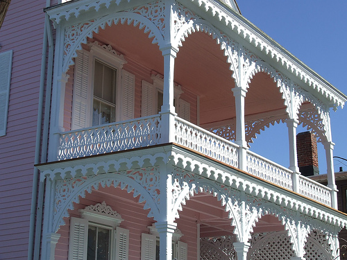 Pink victorian house with gingerbread in Cape May, NJ